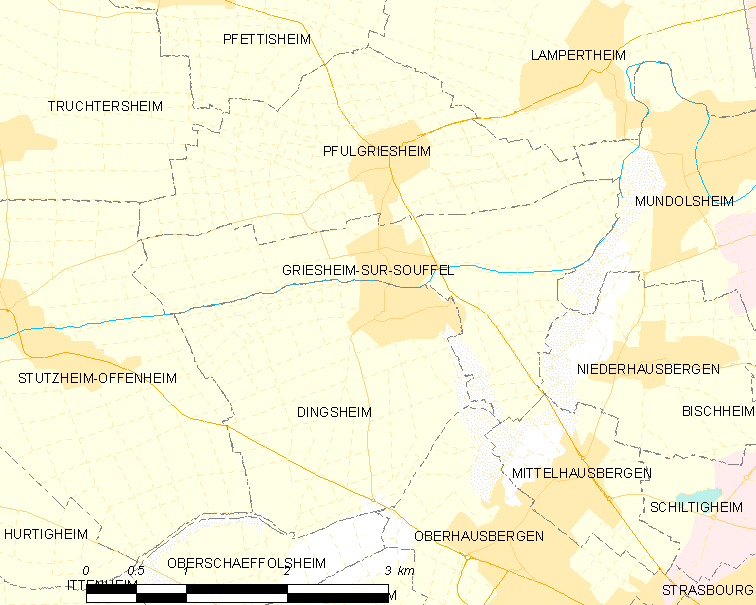 Map of French municipality